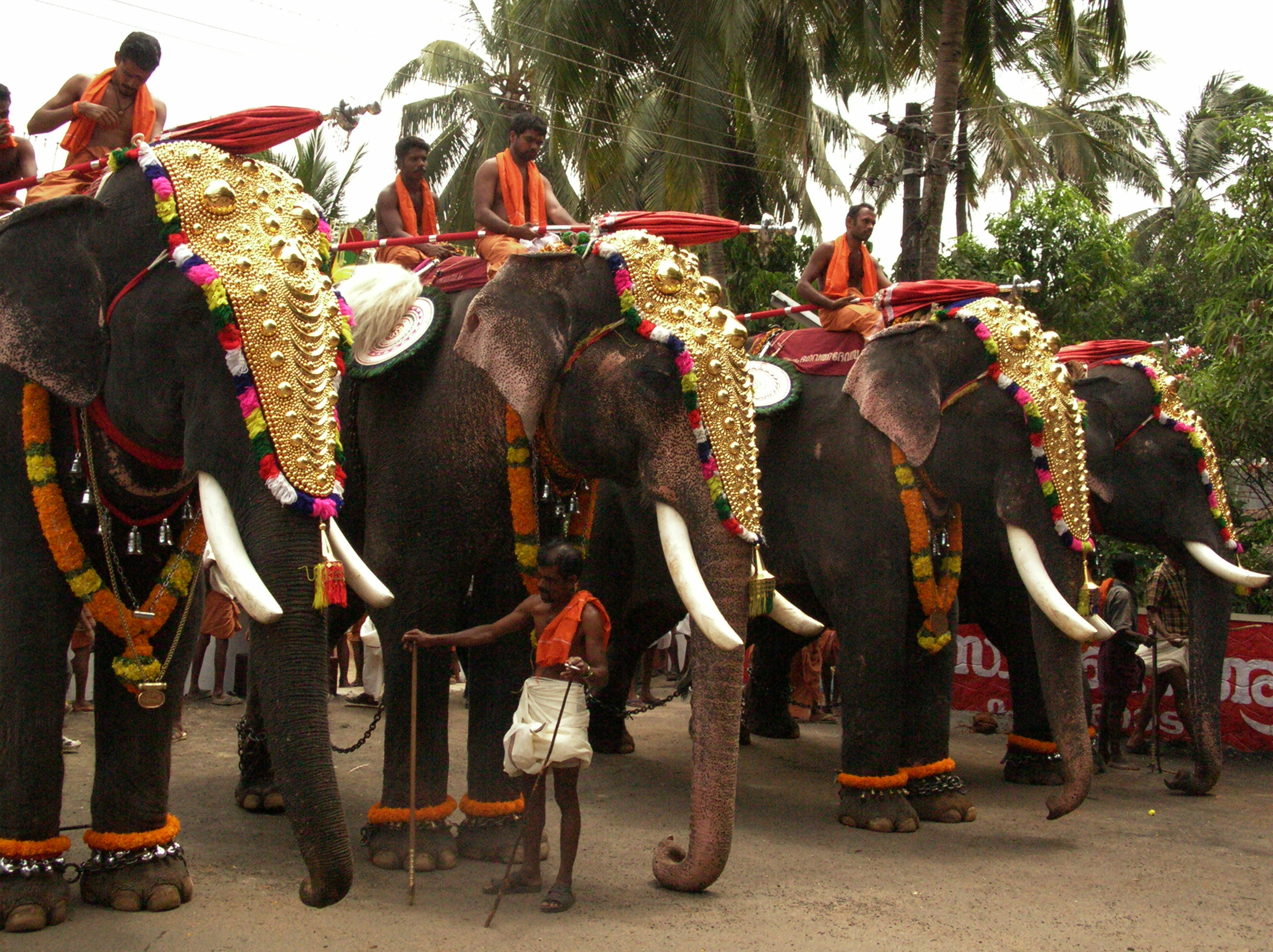 Elephants, Kolazhi, Thrissur, Kerala. Festival" as per means " an event, usually staged by a local community, which centers on some unique aspect of that community." and I thought "flickr" is festive everyday :) we celebrate life through snapshots shared from all around this wonderful planet... glad to be part of it :) This is a snap shot from my trip to Kerala.. Any festival in Kerala means caparisoned elephants.. Lots of music (percussion and wind instruments).. huge crowds and ofcourse the green backgorund :)) Check out this video for a glimpse into how it sounds :) Location-Kolazhi, Thrissur, Kerala. These elephants are waiting for the main elephant which gets to carry the "thidambu"- representing the presiding deity of that temple. (See the last pic in comments. I have umpteen shots and was at a loss as to what to post so as to put forth a snap shot of what I saw and chose these.